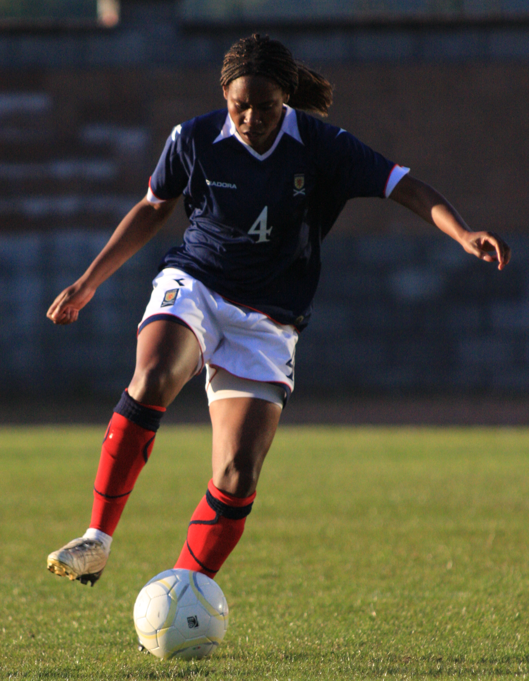 Touch